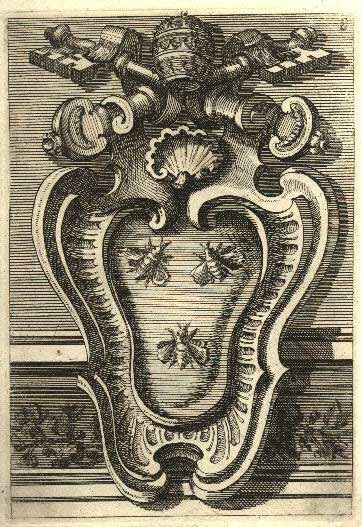 Borromini's coat of arms of Urban VIII in Bernini's Palace Barberini by Filippo Juvarra (1711)